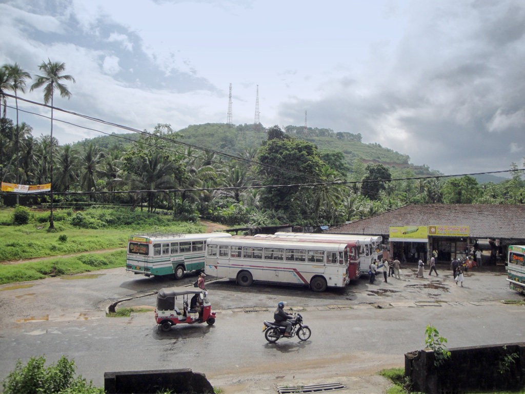 Ingiriya Transport01